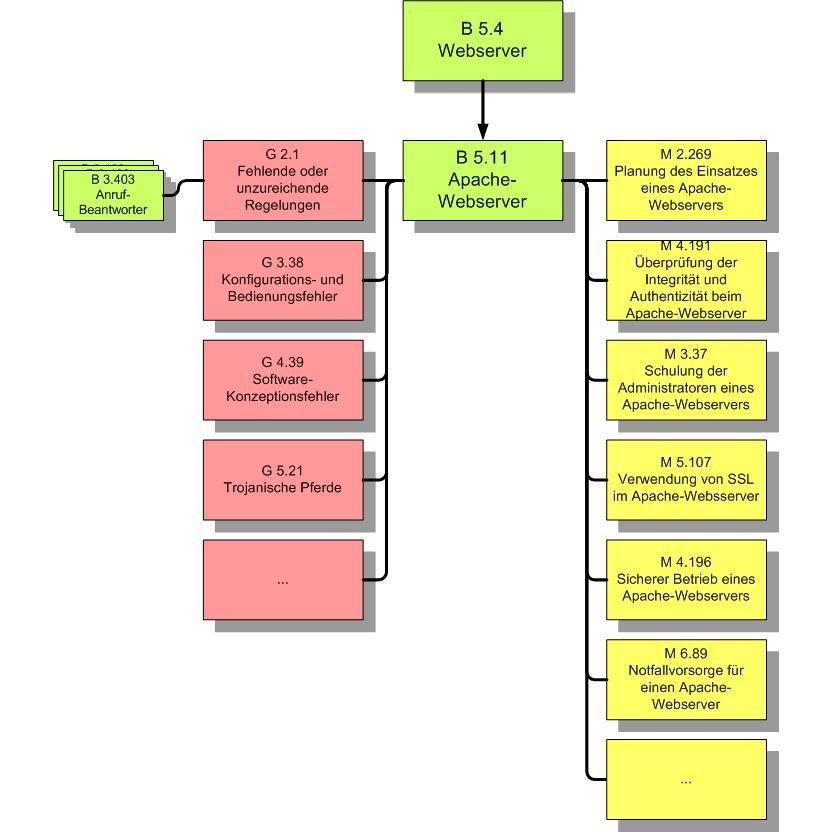 IT Baseline Protection Catalogues: Networking